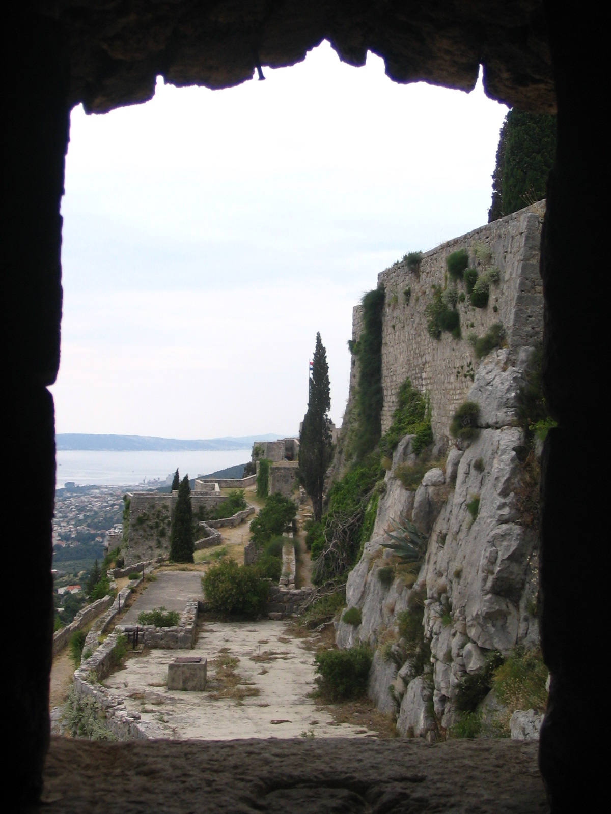 description: Courtyard of Klis fortress seen from inside opis pl: Dziedziniec twierdzy Klis widziany od wewnątrz author/autor: Gardomir (polish wiki:[1]) source/źródło: a photograph taken by me (fotografia wykonana przeze mnie)